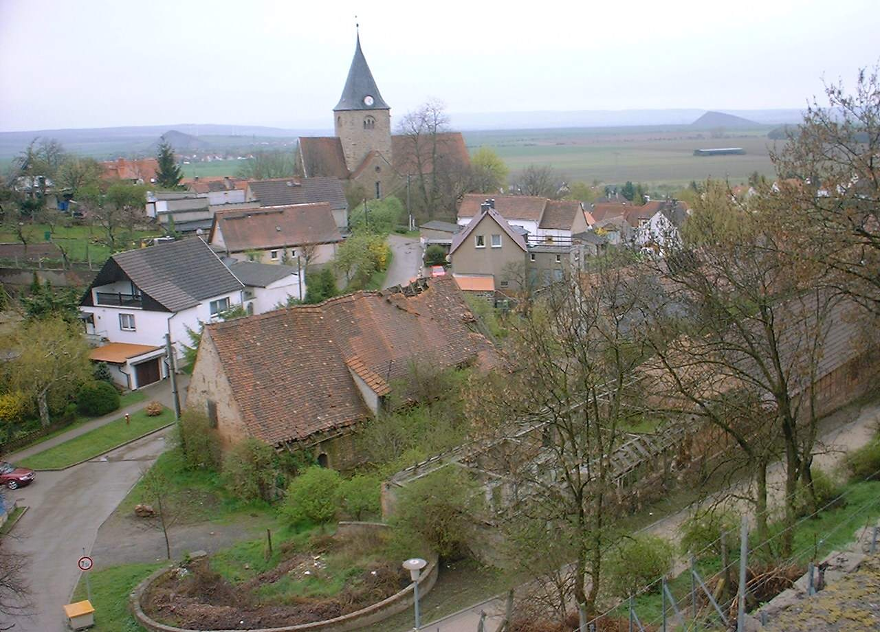 Beyernaumburg in Saxony-Anhalt, Germany